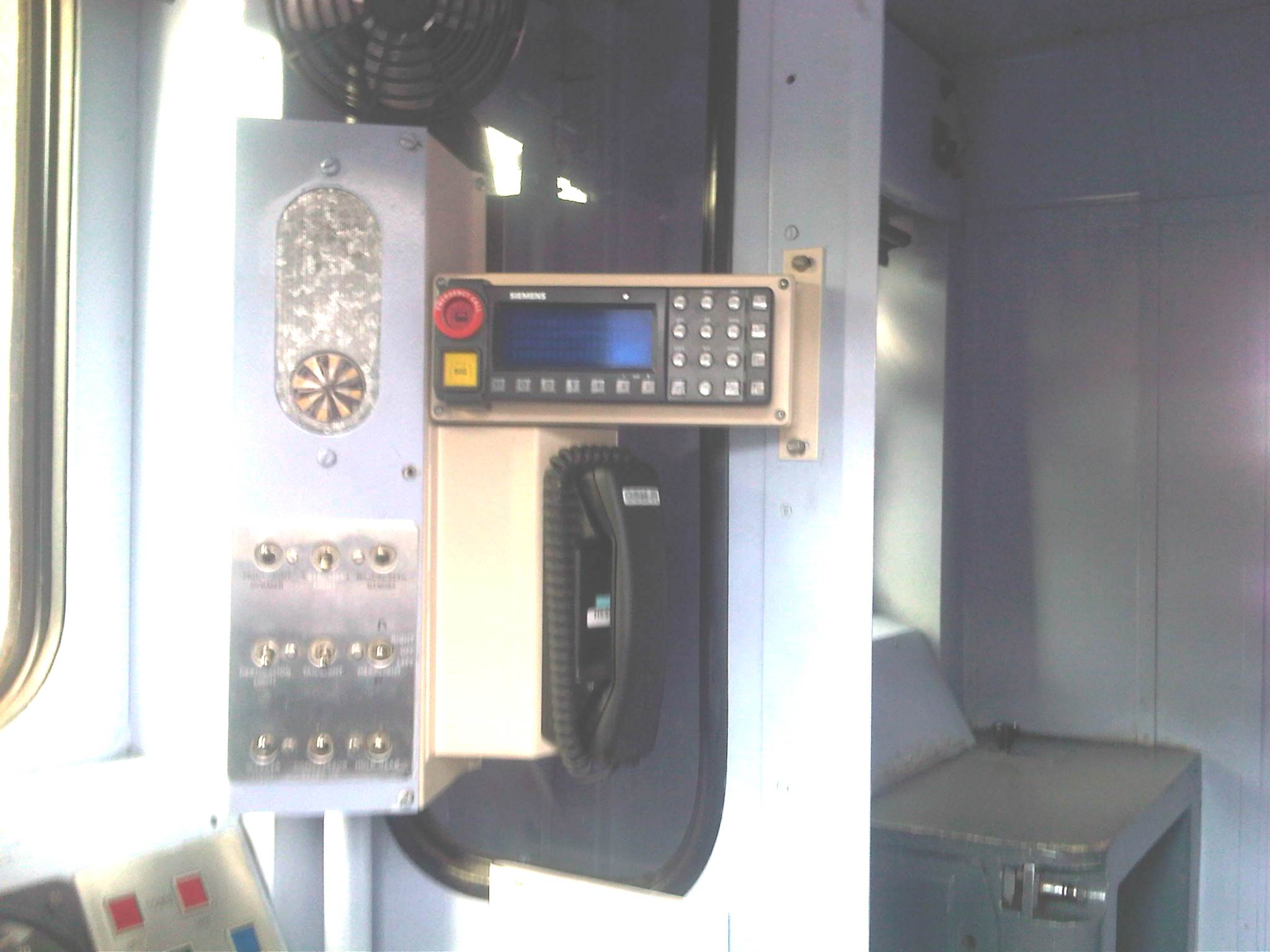 Siemens UK GSM-R Cab Radio fitted on Northern Rail Sprinter DMU photographed at Liverpool Lime Street